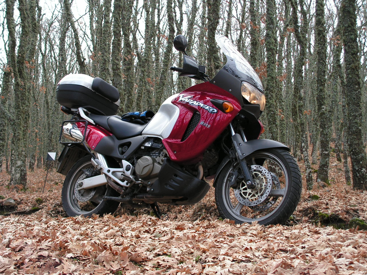 Honda XL1000V Varadero motorcycle in the woods